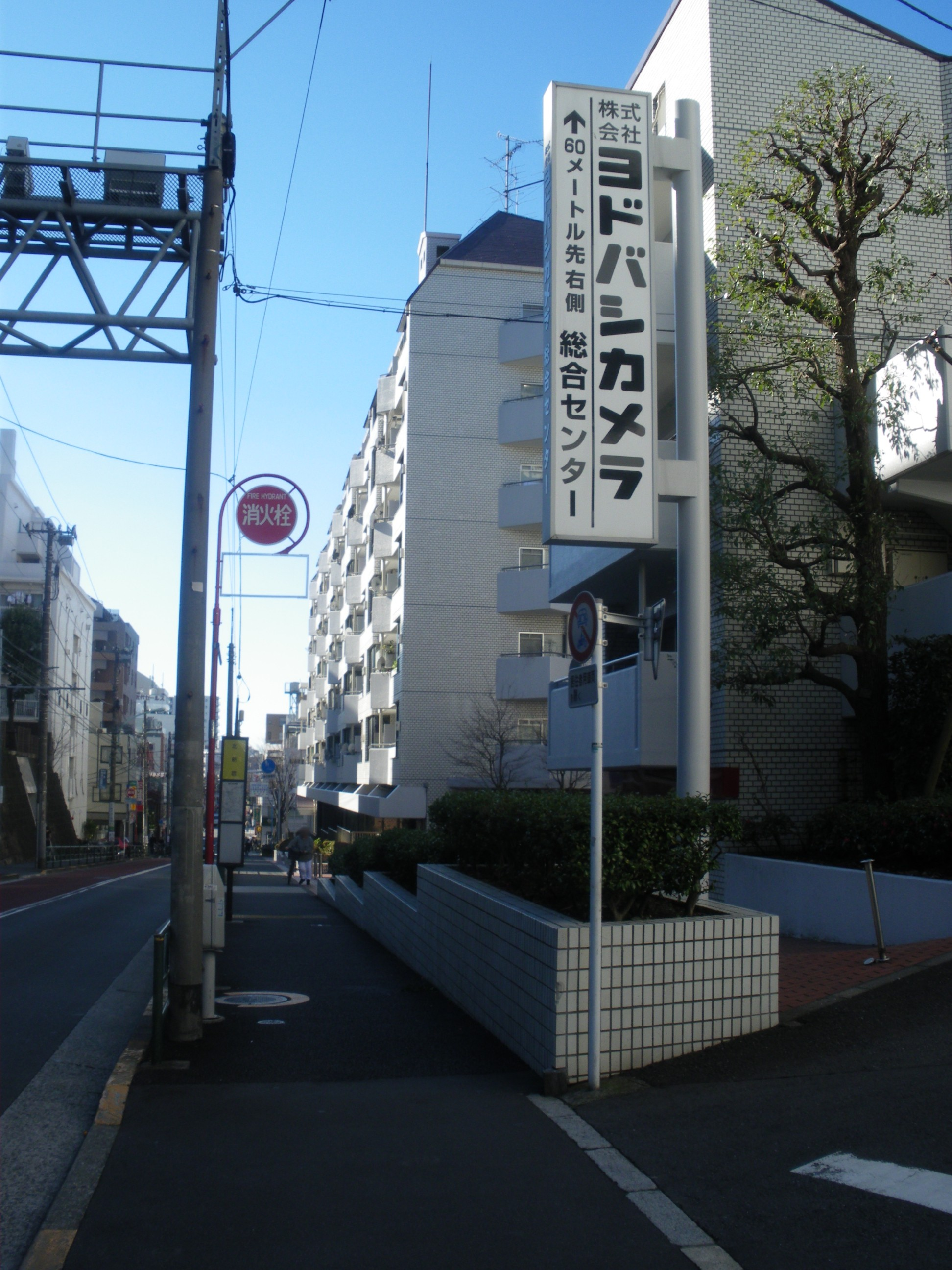 A photo of Yodobashi Camera(a major chain store mainly selling electronic products in Japan.)head office.Kitashinjuku,Shinjuku-ku,Tokyo,Japan.